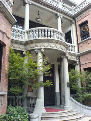 The Xintiandi area in Shanghai, China.